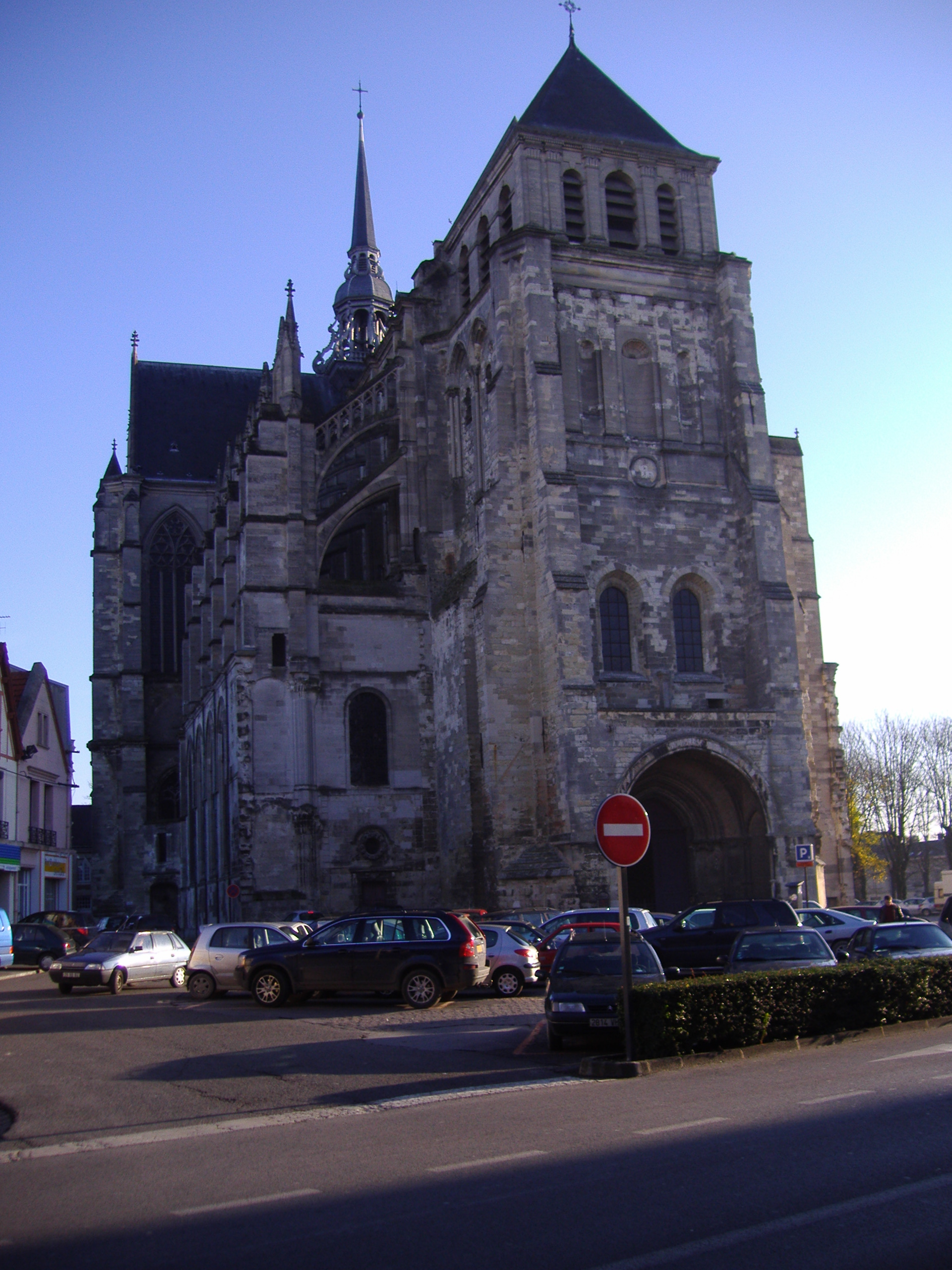 A Digital Photograph of St Quinten by M Hobbs